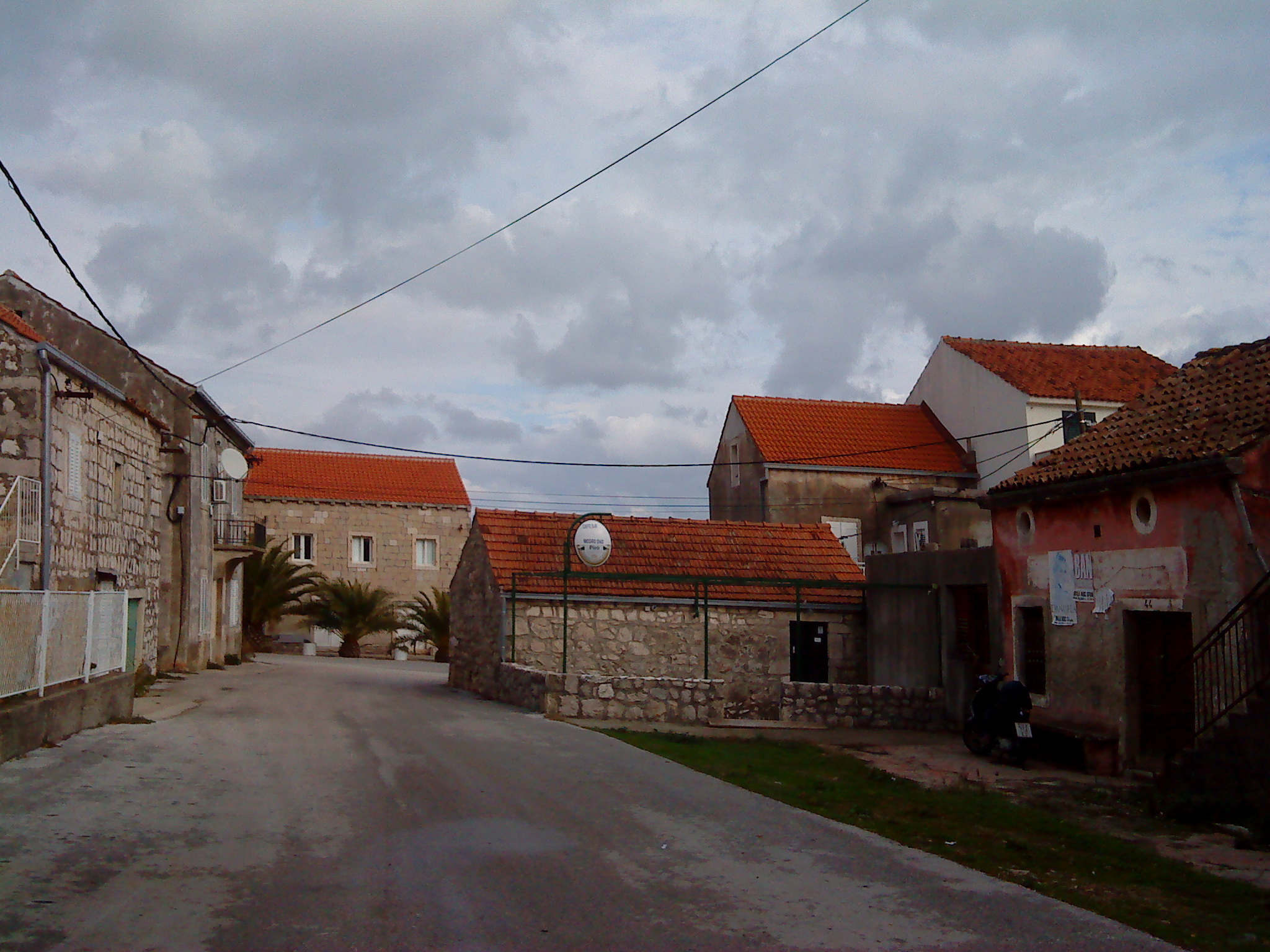 Village of Sreser